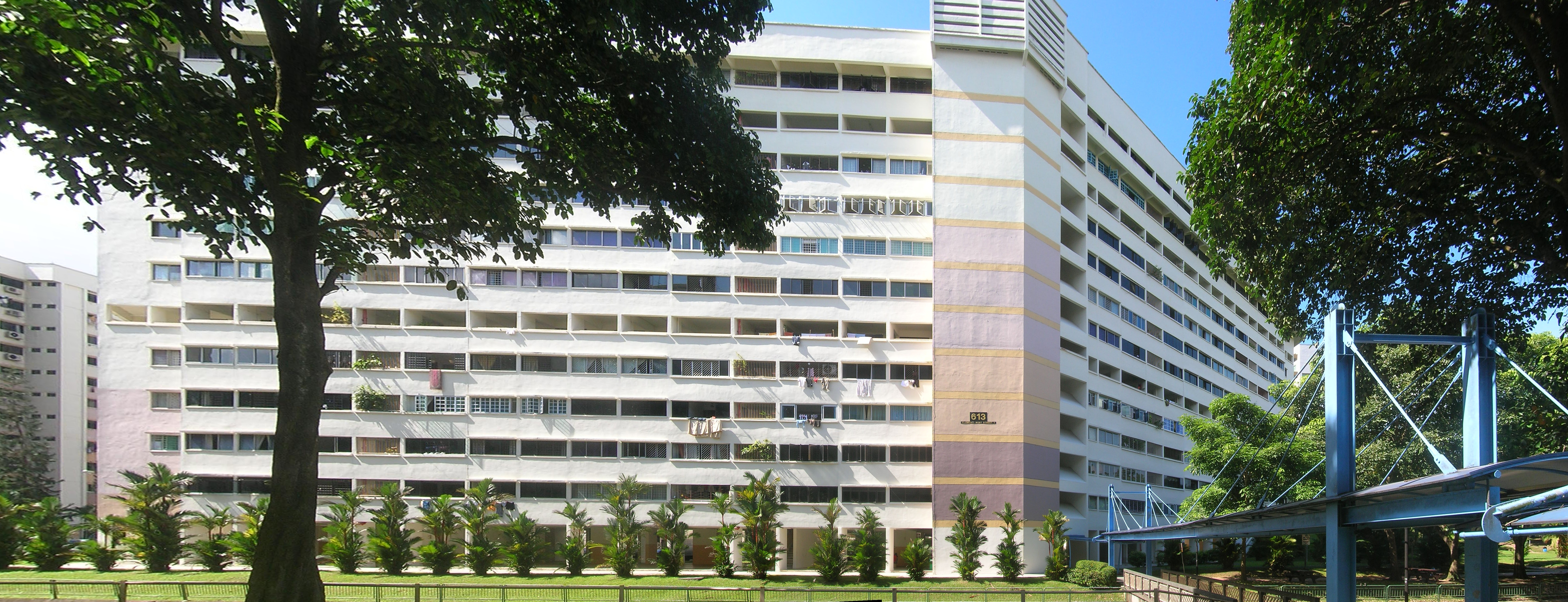 Block 613 Clementi West Street 1 in West Coast, Singapore. (Panorama made with Hugin software.)